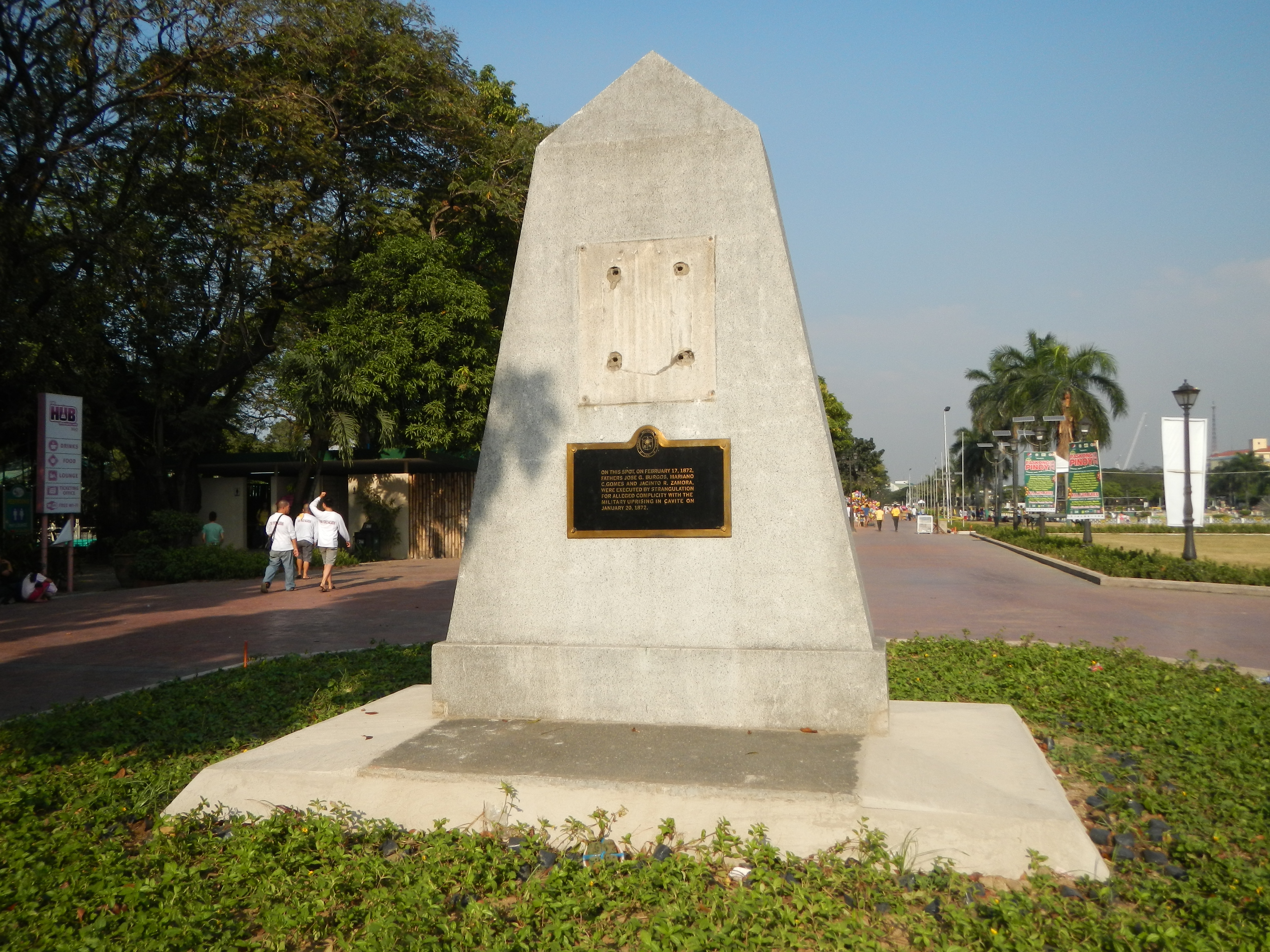 Upload Wizard Panorama photos of -- (general description of landmarks, town, church) - - Rizal Park[1] also Luneta Park or colloquially Luneta, List of public art in Metro Manila[2] - ) Monument of --- Marcelo H. del Pilar[3] Datu Amai Pakpak Confederation of sultanates in Lanao[4] Muhammad Kudarat[5] [6] Aman Dangat List of historical markers in the Philippines [7] Rizal Park Open Air Auditorium Gomburza [8]